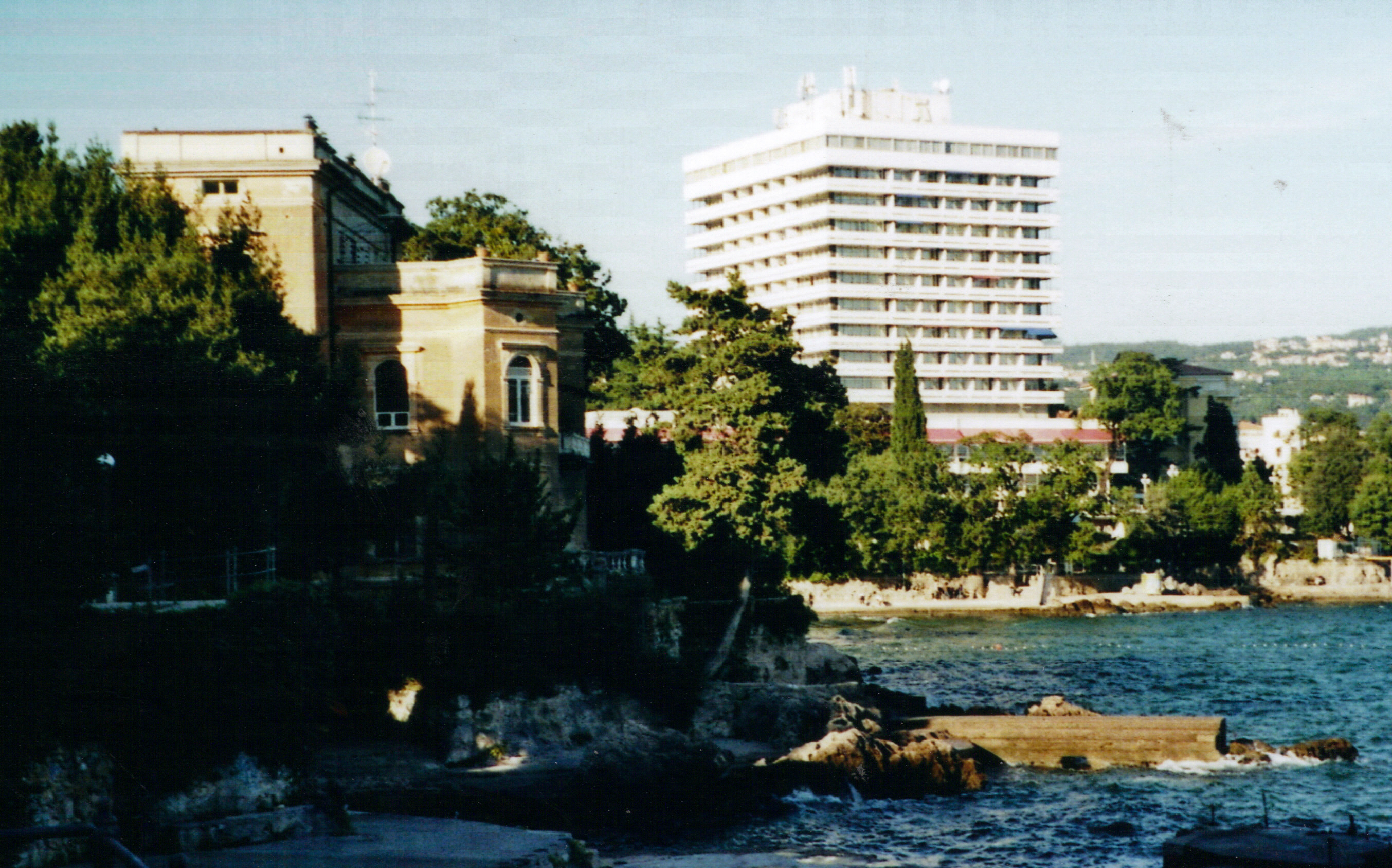 Opatija, Hotel Ambasador